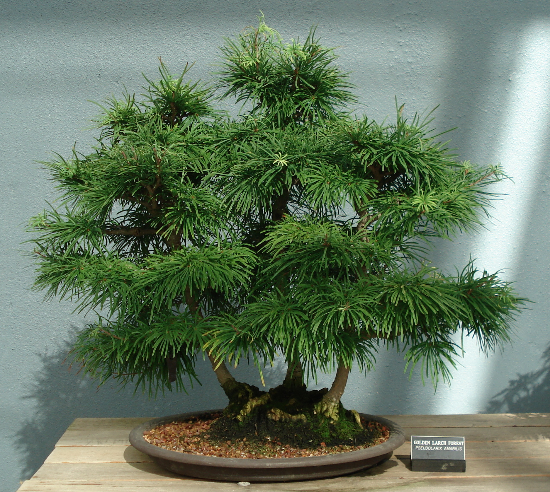 Pseudolarix amabilis (Golden Larch) bonsai forest from Brooklyn Botanic Garden, in New York City. Copyright 2007 Jeffrey O. Gustafson, released to Commons under the GFDL and CC-BY-SA-3.0.